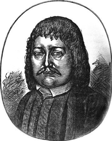 Pierros Grigorakis (1770-1836): Greek revolutionist